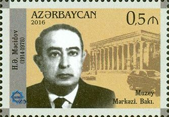 The 80th Anniversary of the Union of Architects of Azerbaijan. N 1258 - 50 qapik. There are pictured Hasan Mejidov and Museum center in Baku on the stamps.